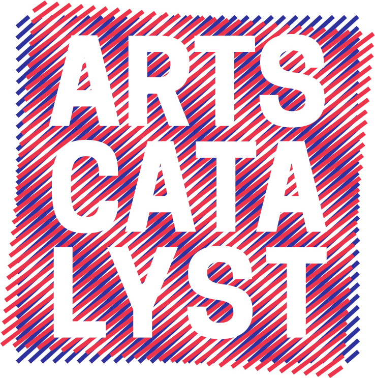 This is the logo for Arts Catalyst